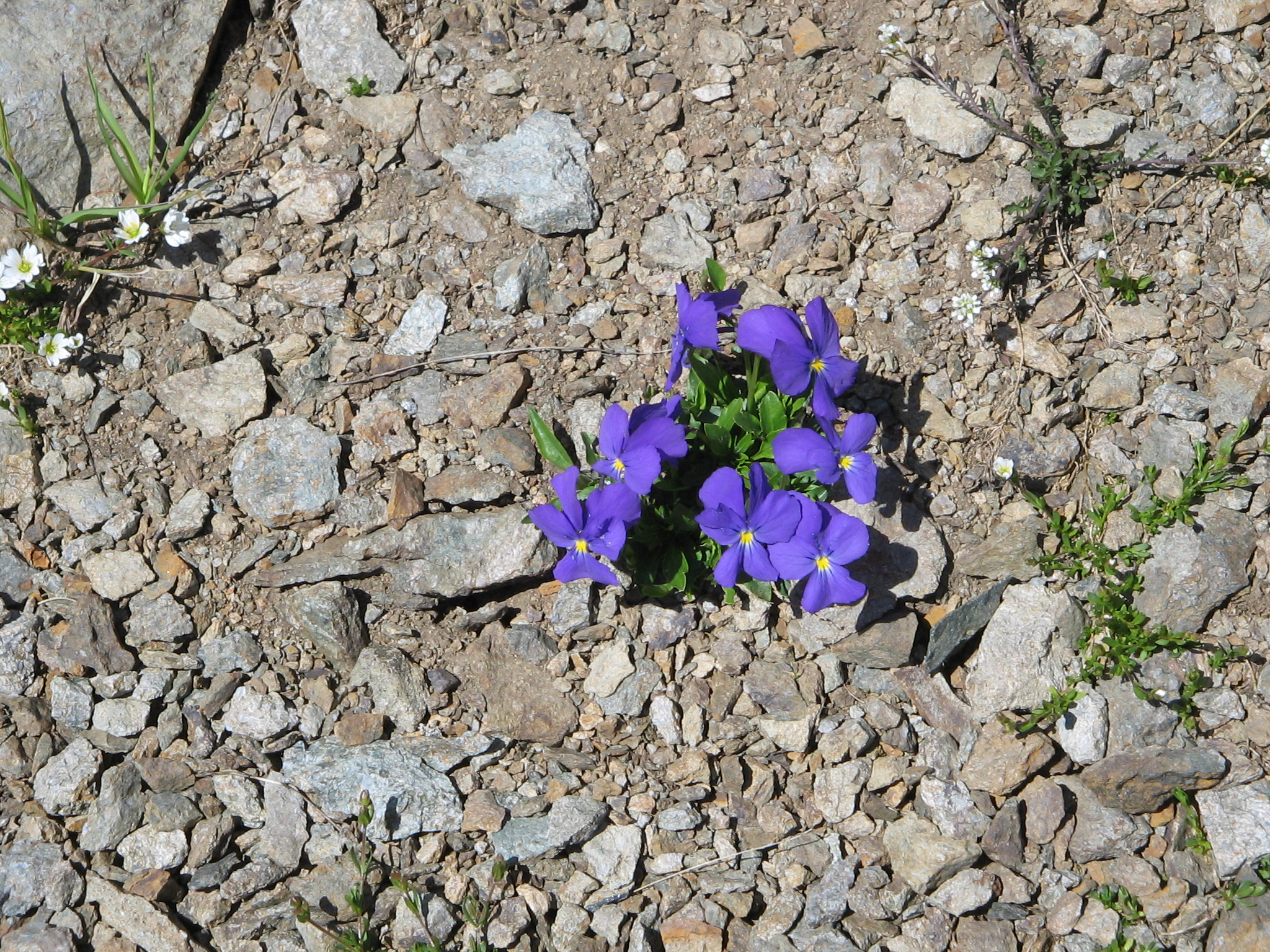 Viola calcarata